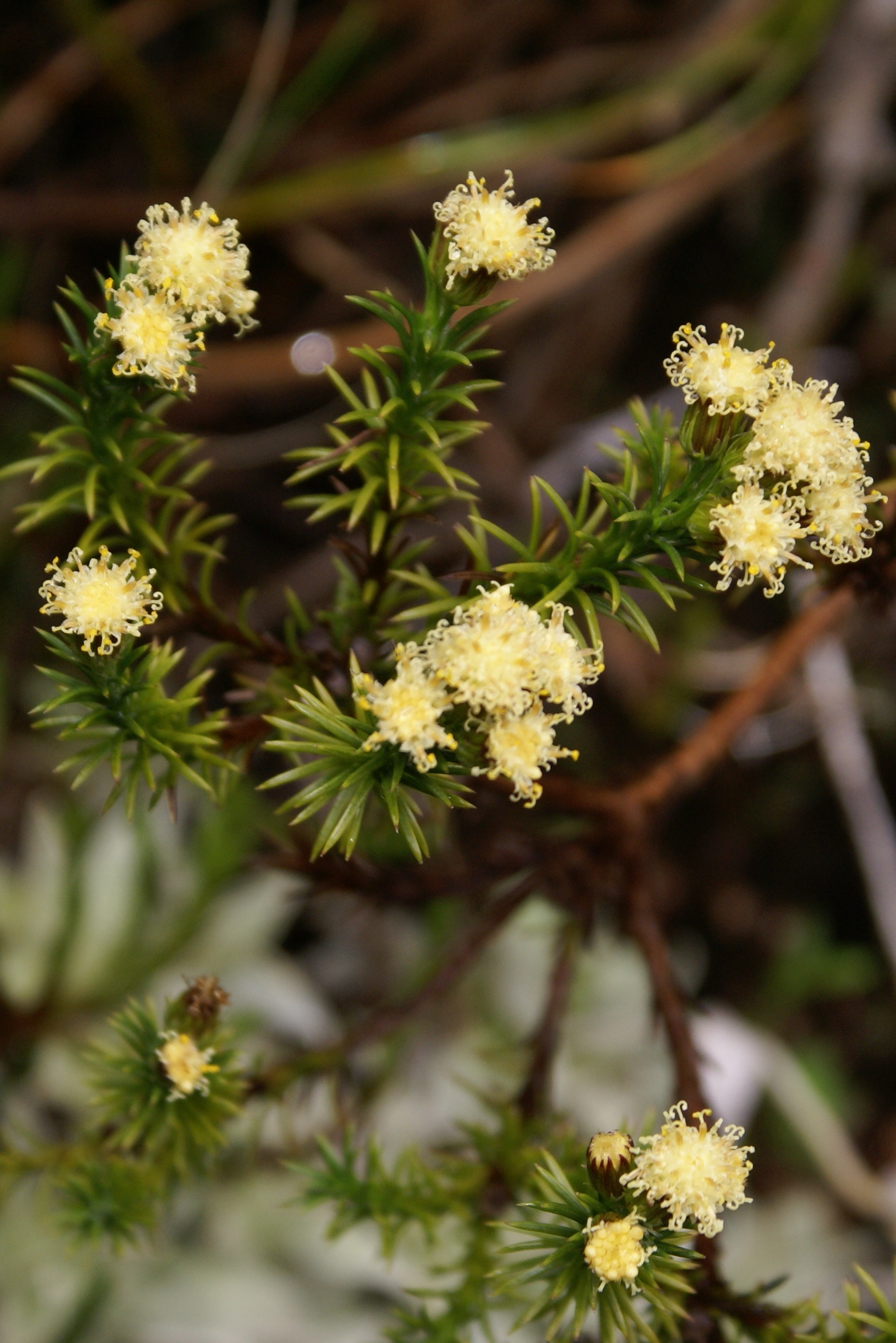 Eriotrix commersonii, a species belonging to the Asteraceae family, endemic to Réunion island